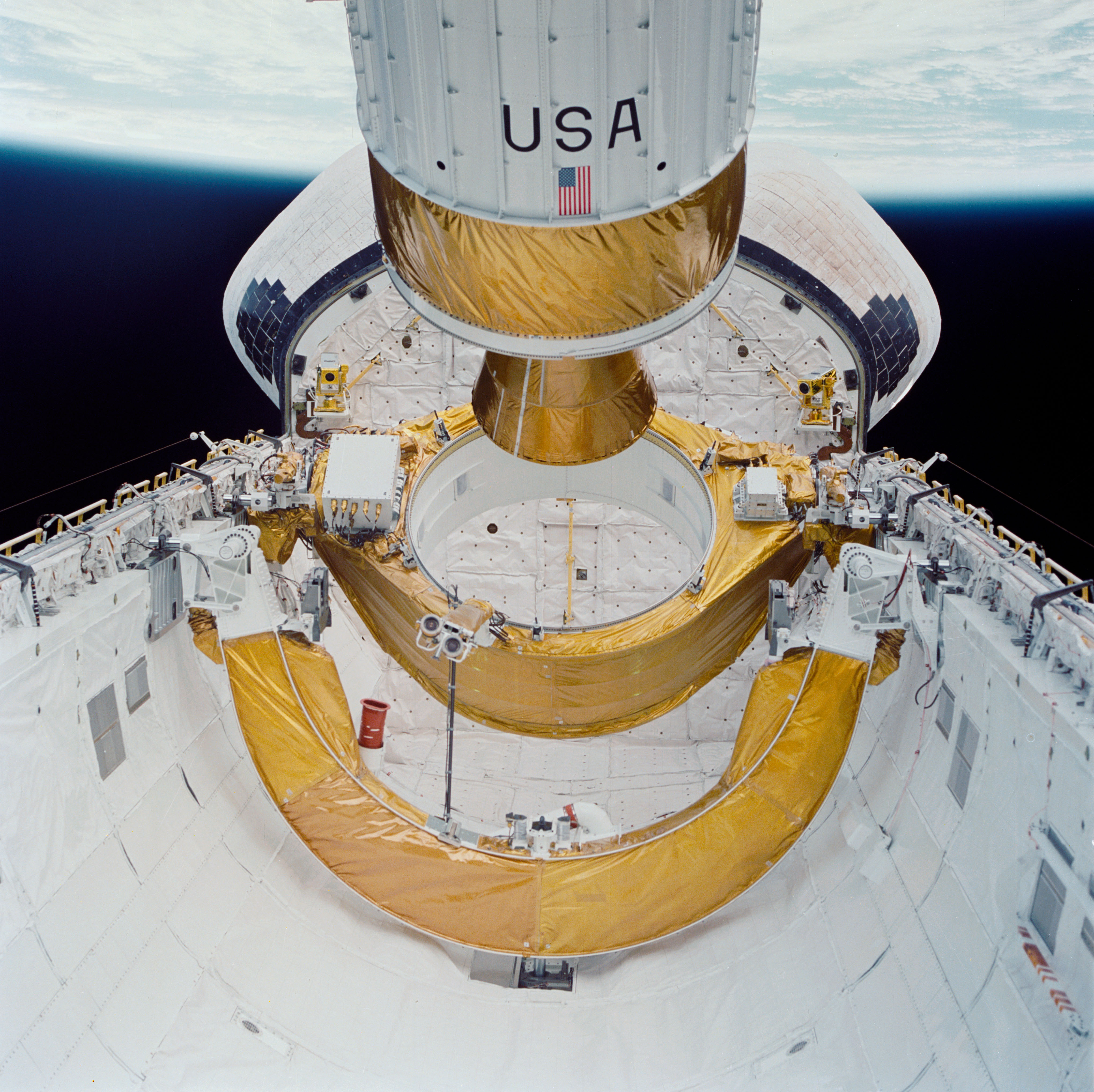 TDRS-C is released.